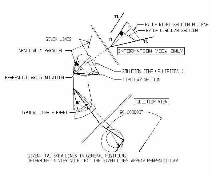 Descriptive geometry - skew lines appearing perpendicular This drawing is one of several in a series used to illustrate Descriptive Geometry examples. 2005 United States Department of the Navy